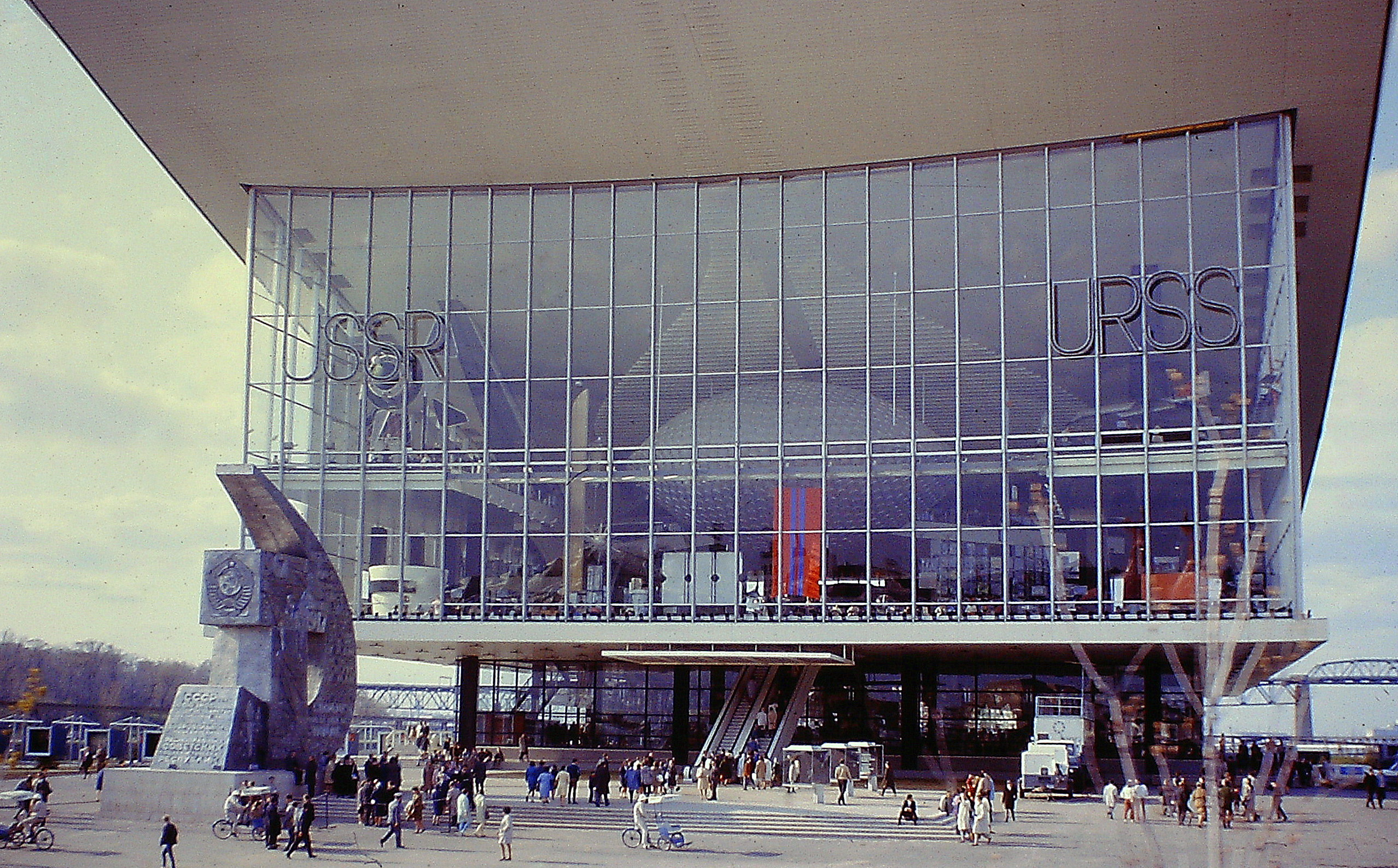 USSR Pavilion Inside at Universal Exposition of 1967, Montreal, Quebec, Canada